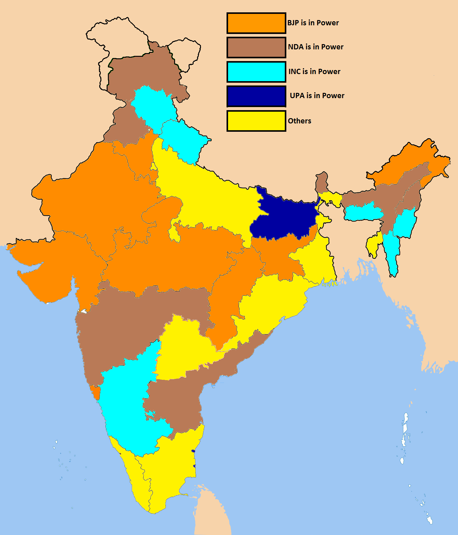 The image shows the various states of India along with their respective sate governments led by various political parties and alliances.